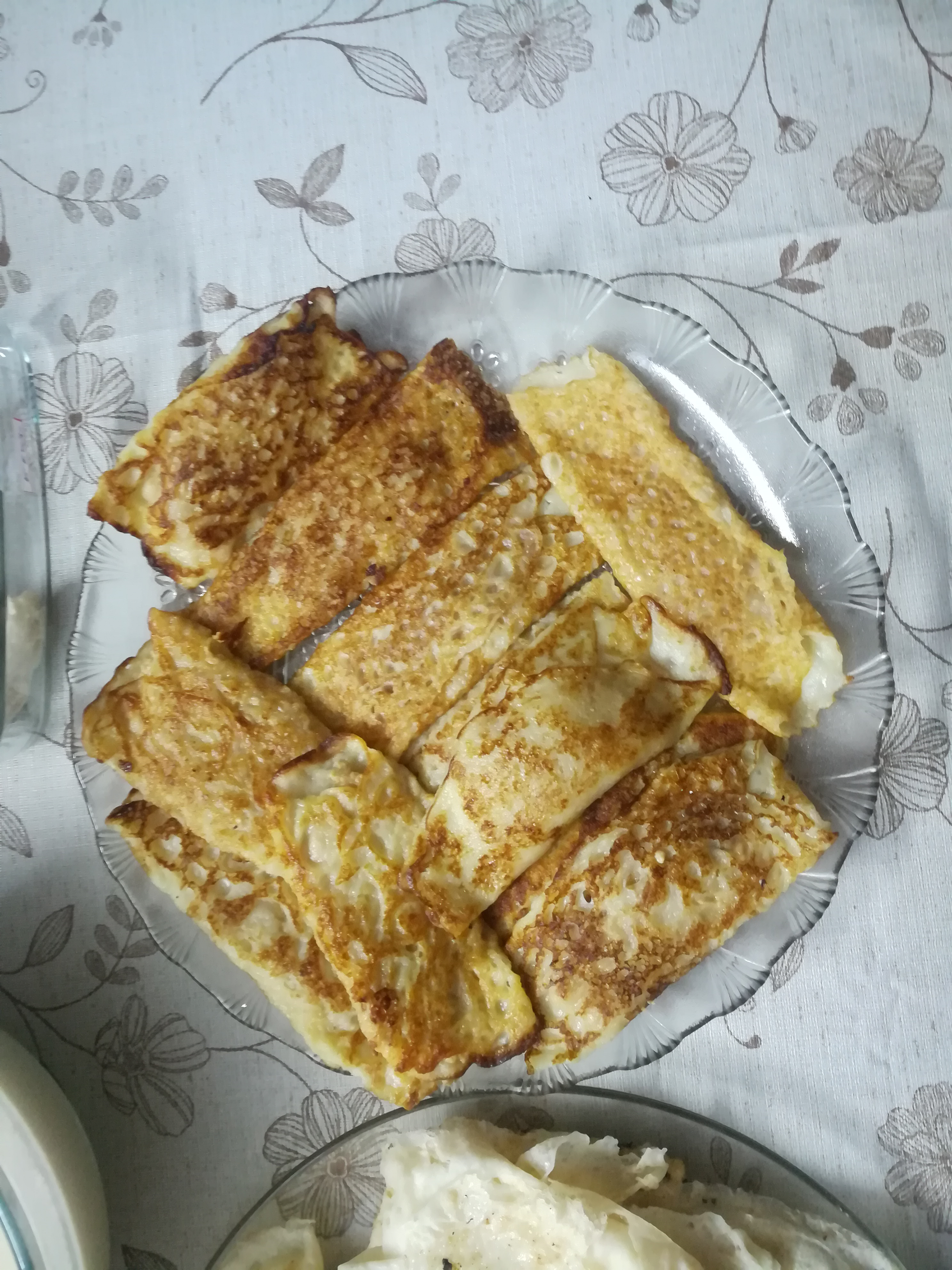 Patisapta is a very old traditional Bengali sweet dish.